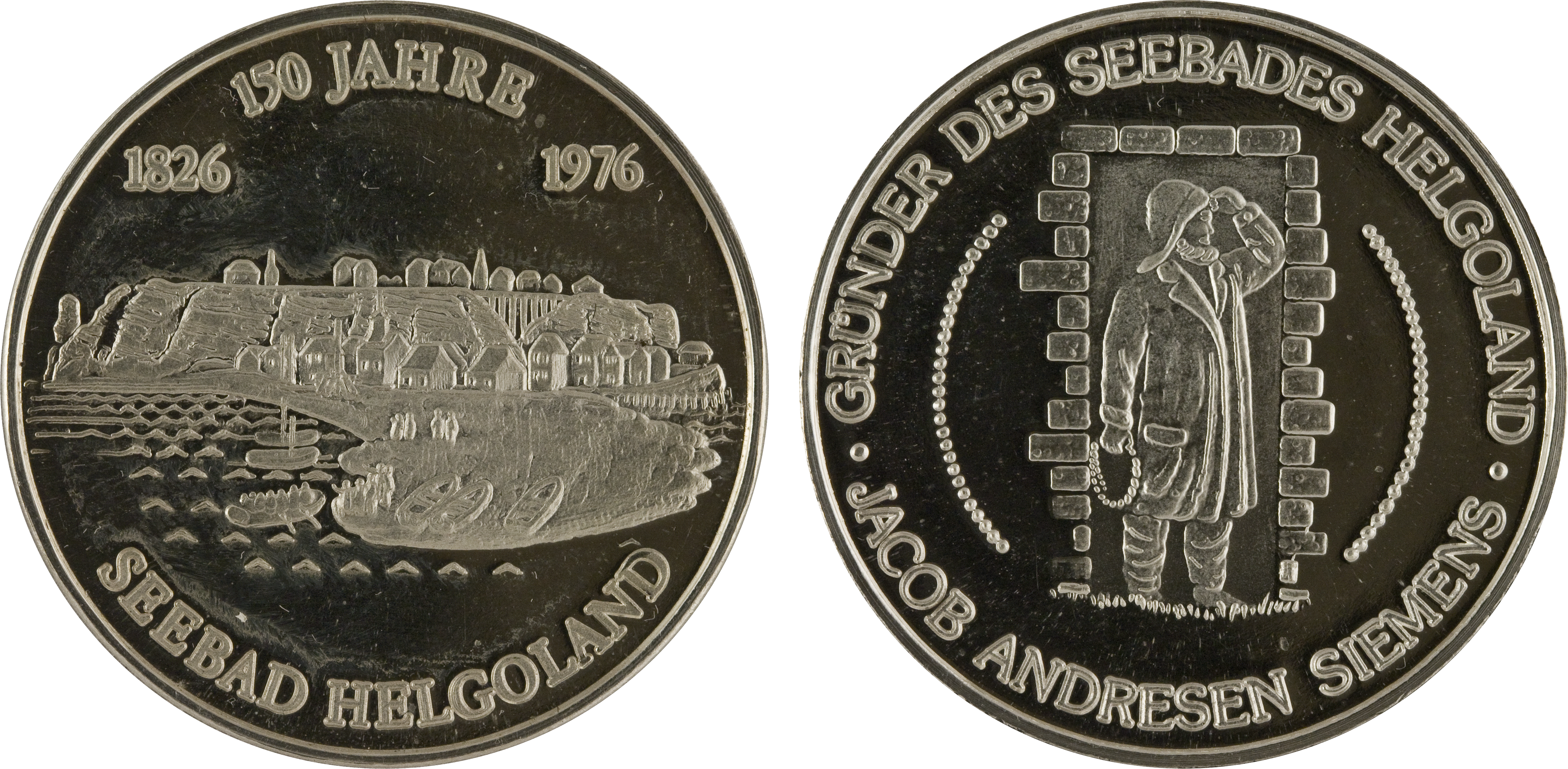 A german memorial coin